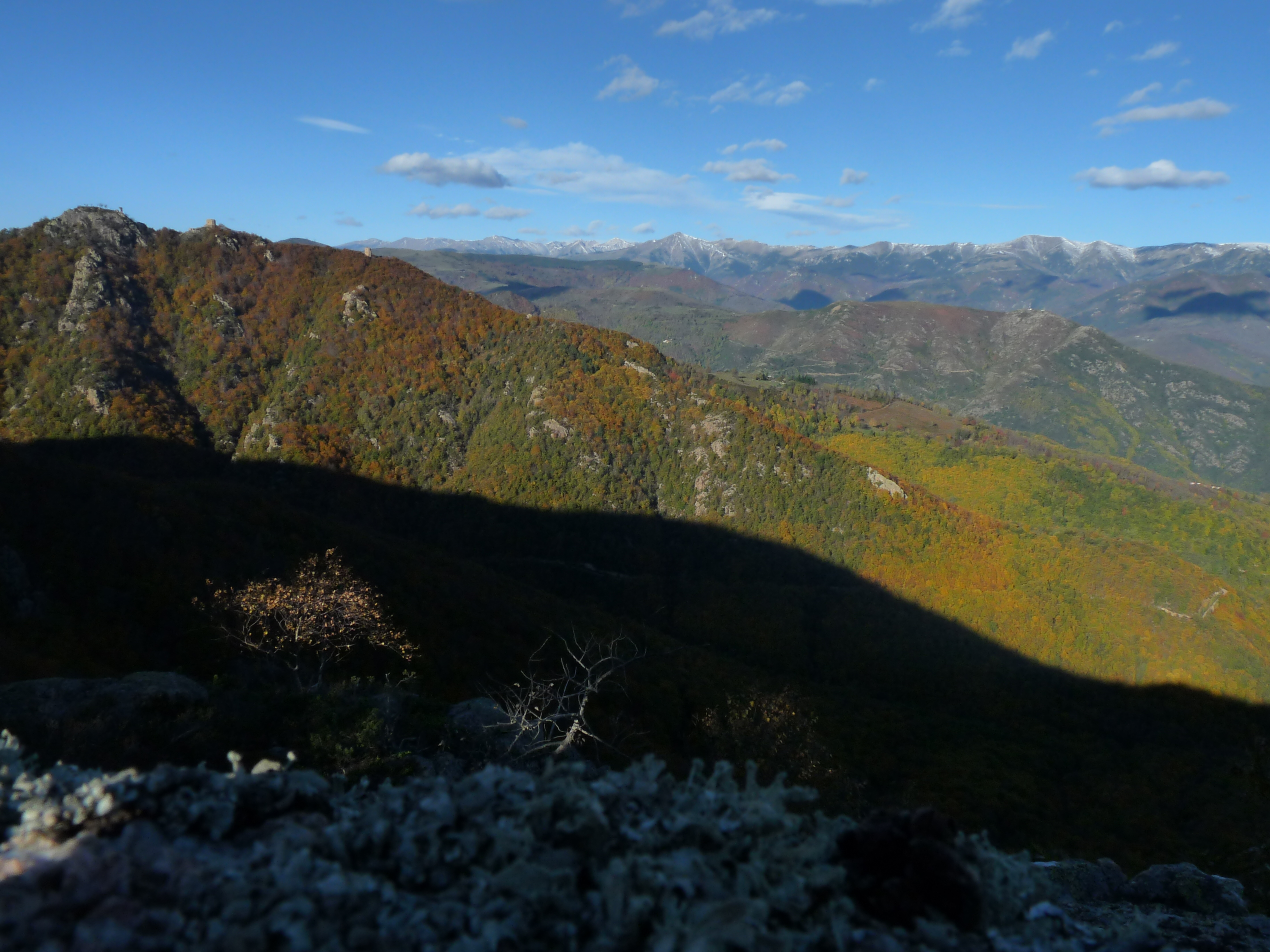 General view of Haut-Vallespir with the 3 towers of Cabrenç